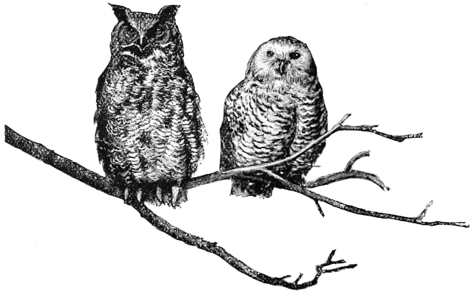 Great horned and Snowdon owls